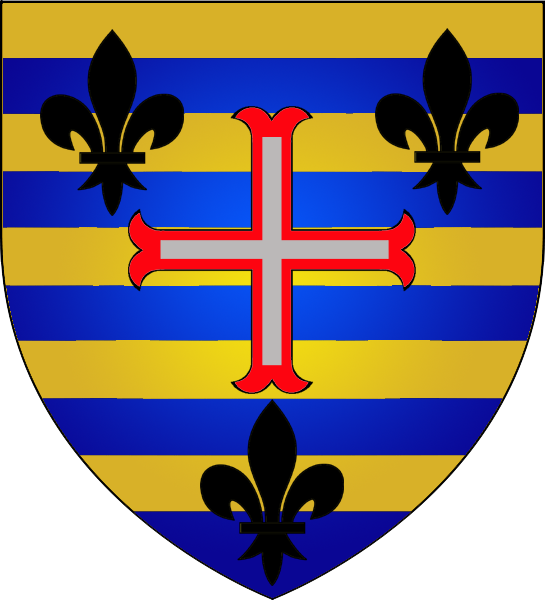 Coat of arms of the municipality of Ermsdorf, Luxembourg (valid until 1 January 2012)